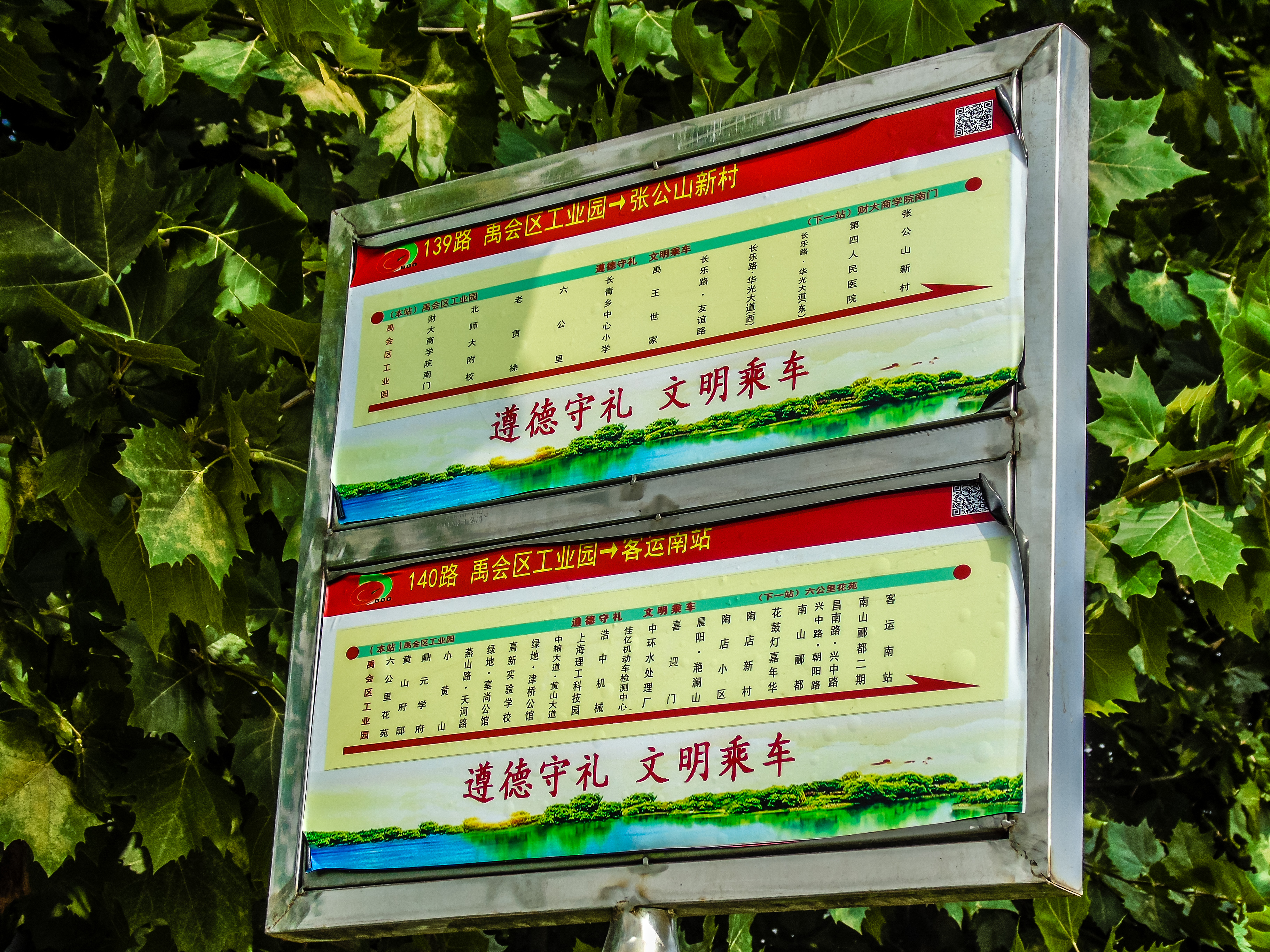 Bengbu Bus No.139 and No.140 Information Board